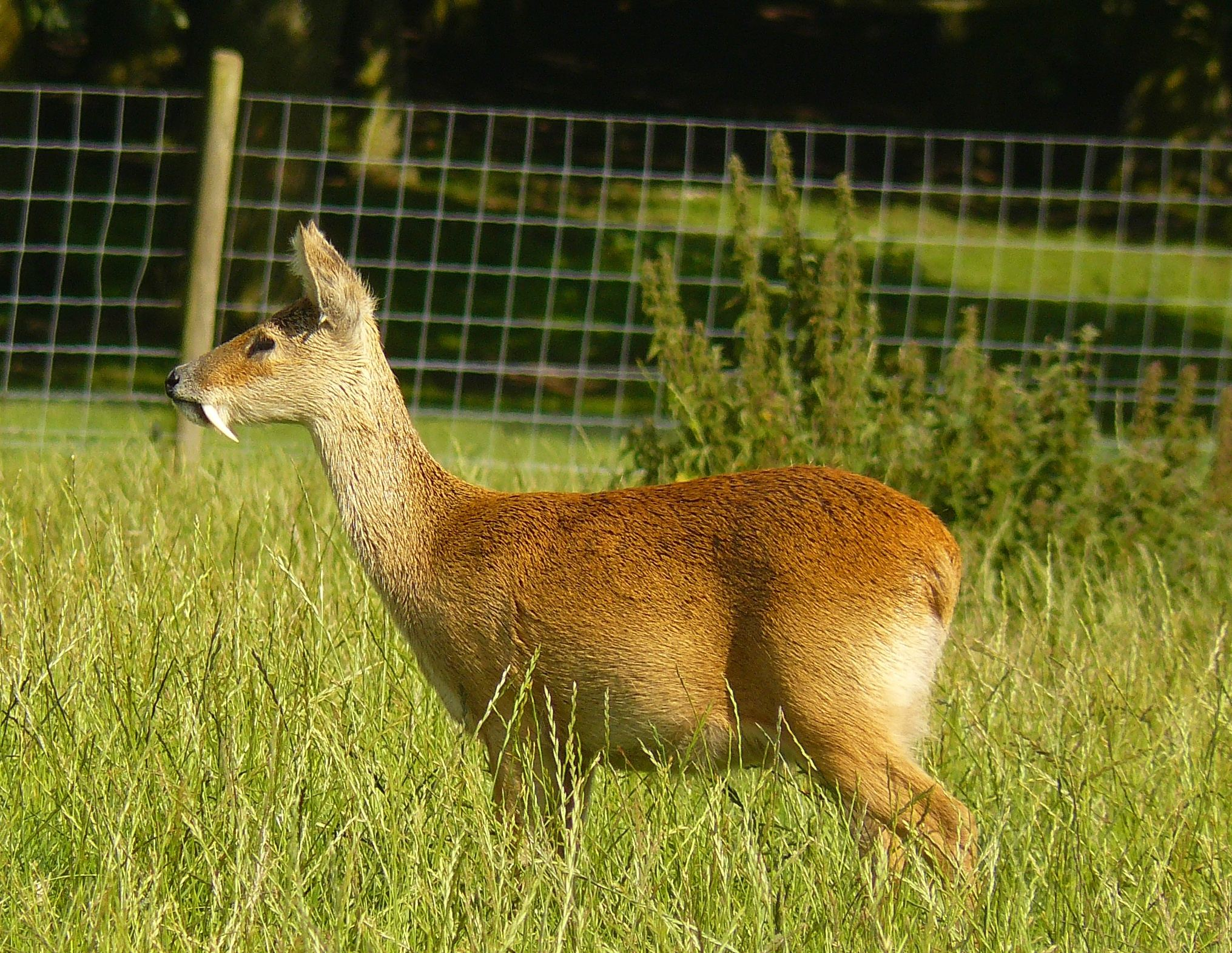 Male Water deer (Hydropotes inermis) at Whipsnade Zoo, UK